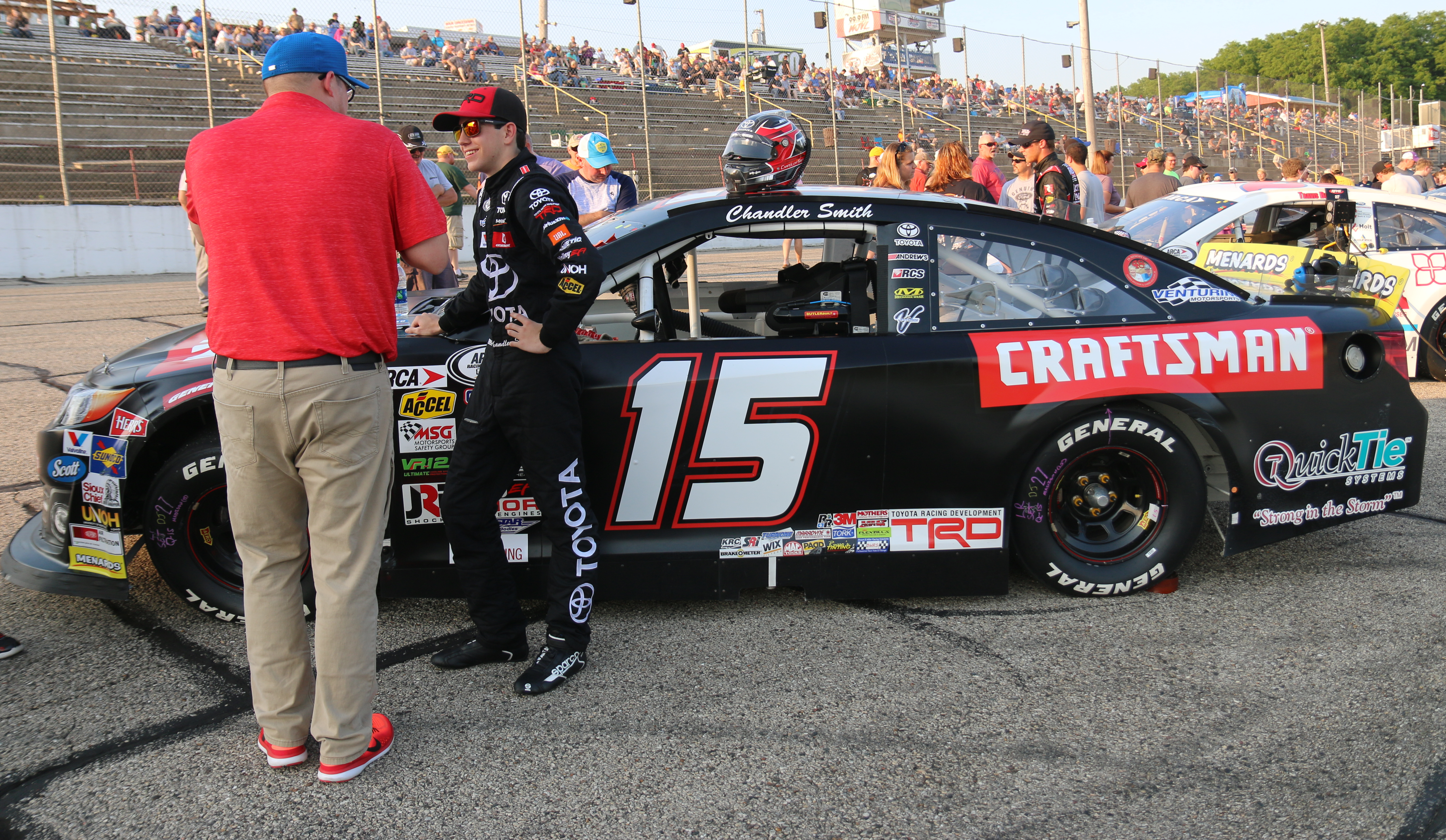 The #15 car of Chandler Smith on display at the 2018 ARCA race at Madison International Speedway.